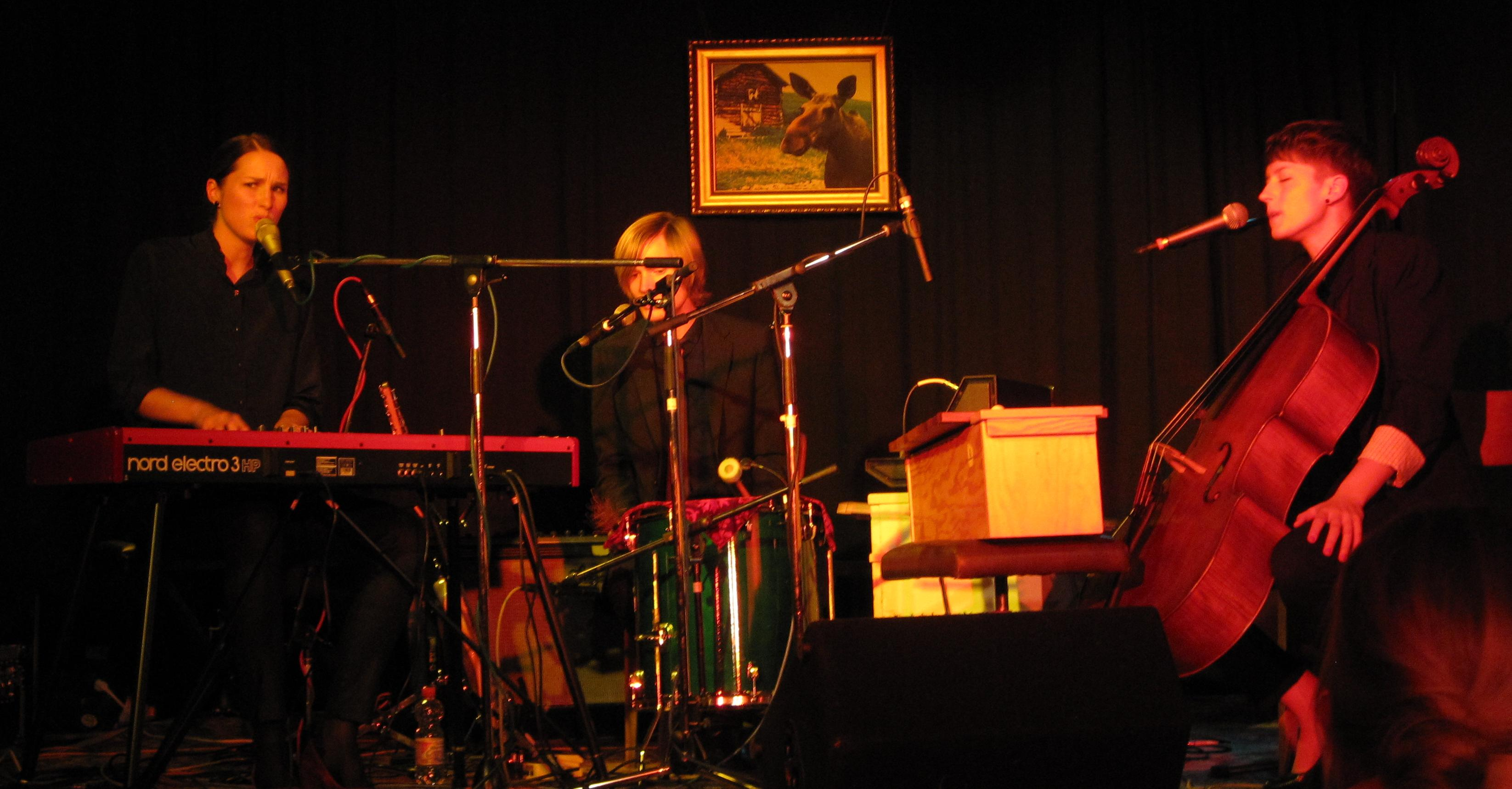 Big Fox (Charlotta Perers [left]) with Albin Johansson and Gerda Holmqvist at a concert in Göttingen check usage